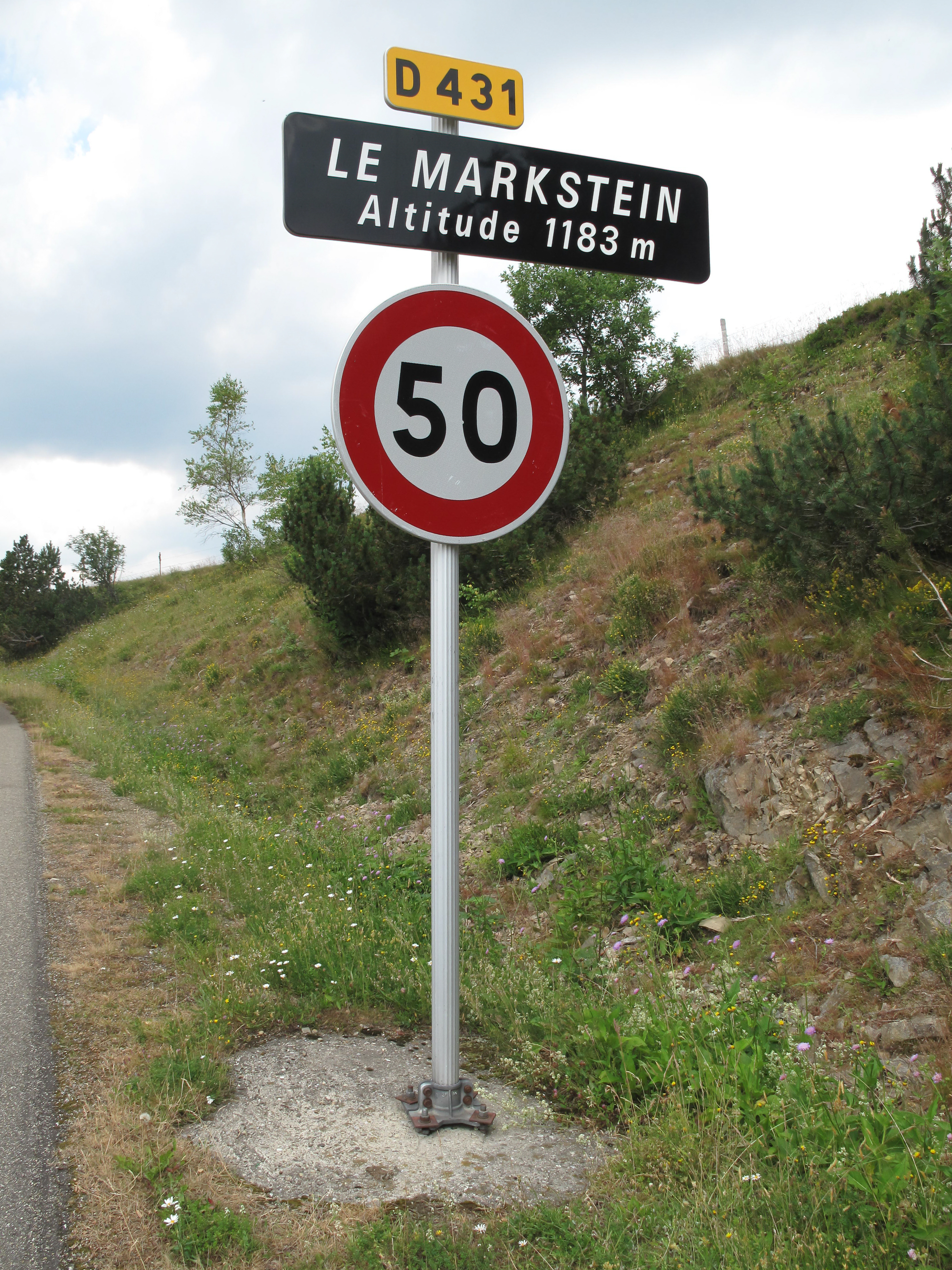 le Markstein, name sign